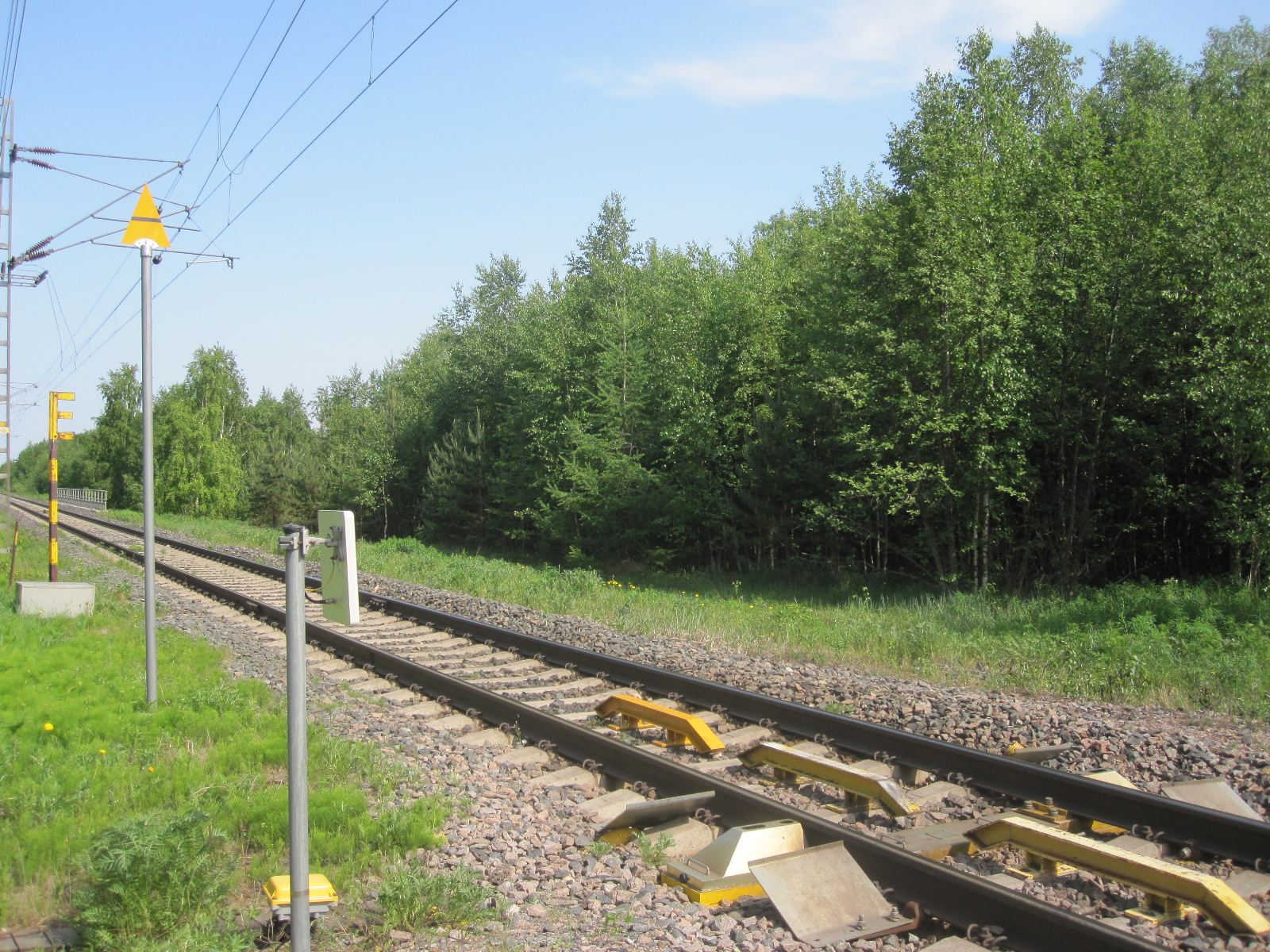 Seinäjoki–Oulu railway in Tupos, Liminka, Finland, seen towards north (Oulu).